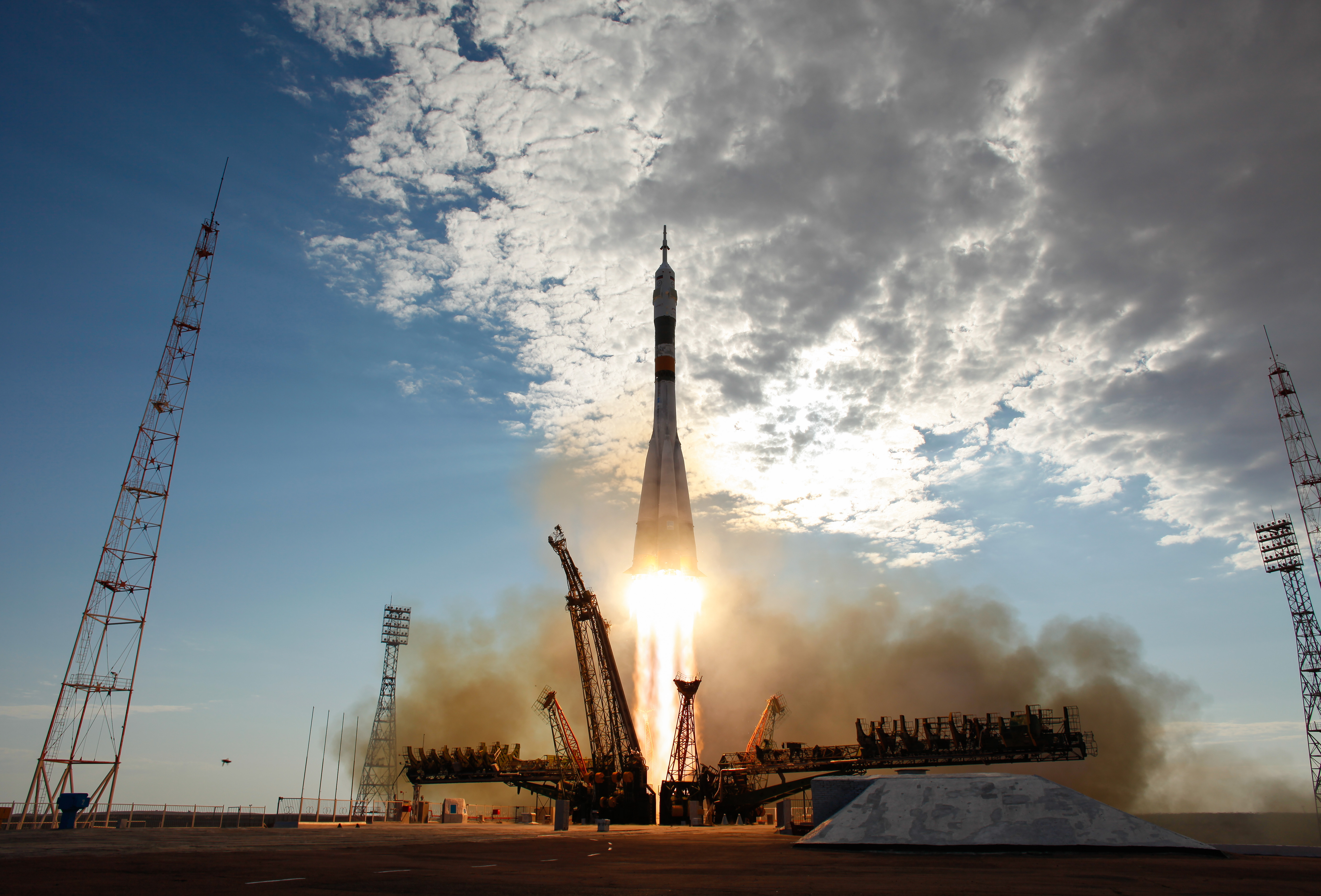 The Soyuz TMA-05M rocket launches from the Baikonur Cosmodrome in Kazakhstan on Sunday, July 15, 2012 carrying Expedition 32 Soyuz Commander Yuri Malenchenko, NASA Flight Engineer Sunita Williams and JAXA (Japan Aerospace Exploration Agency) Flight Engineer Akihiko Hoshide to the International Space Station.